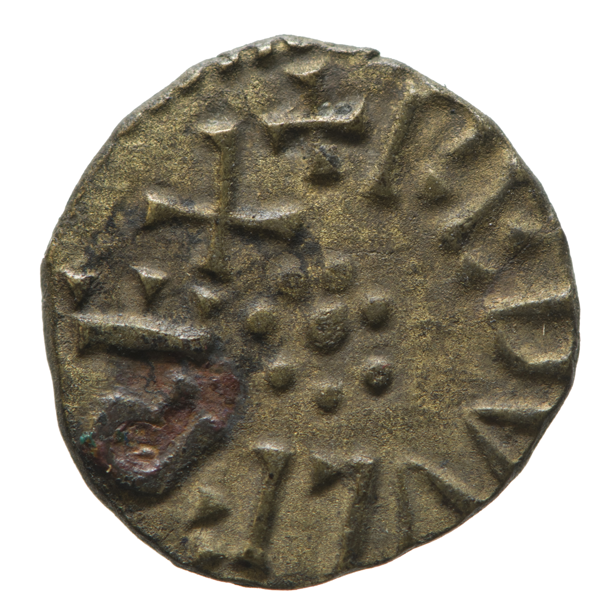 Obverse (front) of a copper alloy styca of Rædwulf_of_Northumbria Pellet surrounded by ring of pellets.